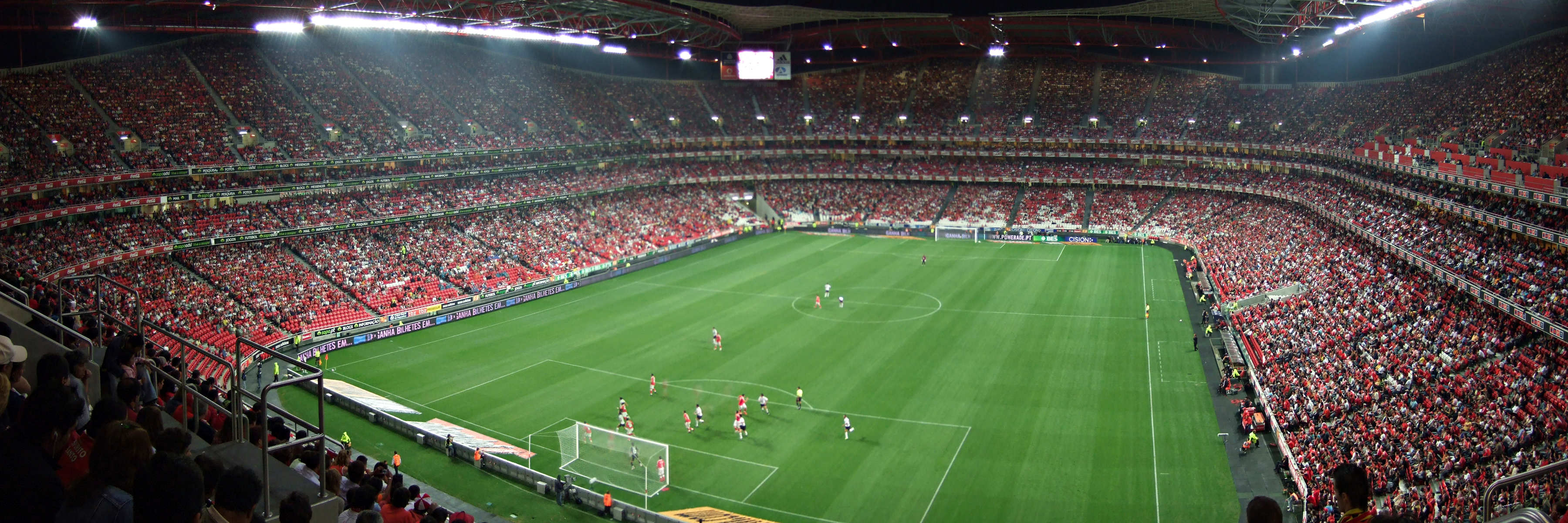 Sport Lisboa e Benfica playing with Vitória de Guimarães in Luz Stadium.